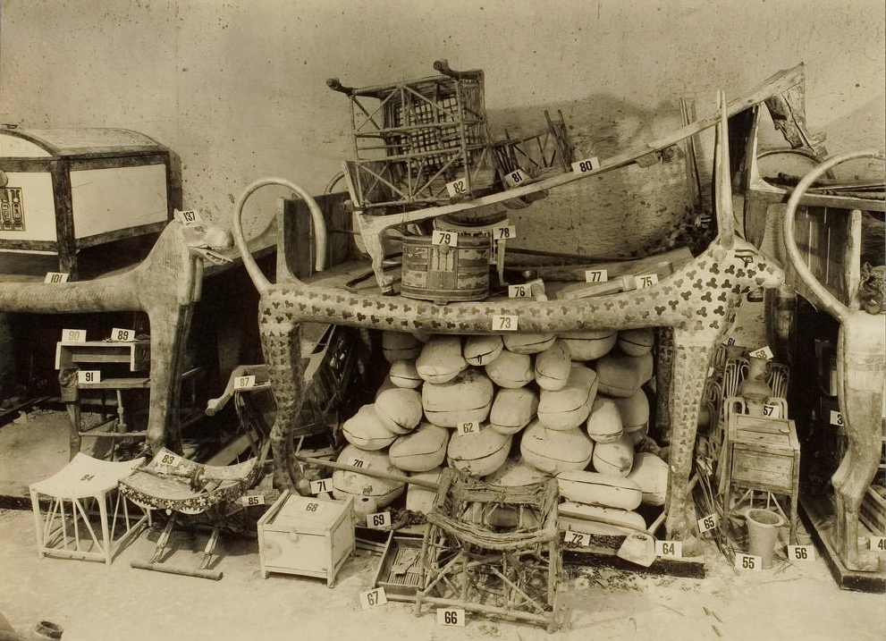 Harry Burton: Tutankhamun tomb photographs: a photographic record in 5 albums containing 490 original photographic prints ; representing the excavations of the tomb of Tutankhamun and its contents. Vol. 2